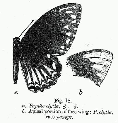 Common Mime